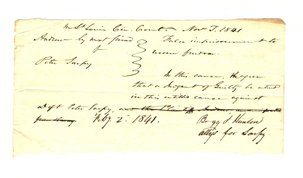 In this cause We agree that a Judgment of Guilty be entered in this entitled cause against Deft Peter Sarpy , and the Plaintiff Andrew , Feby. 2. 1841.